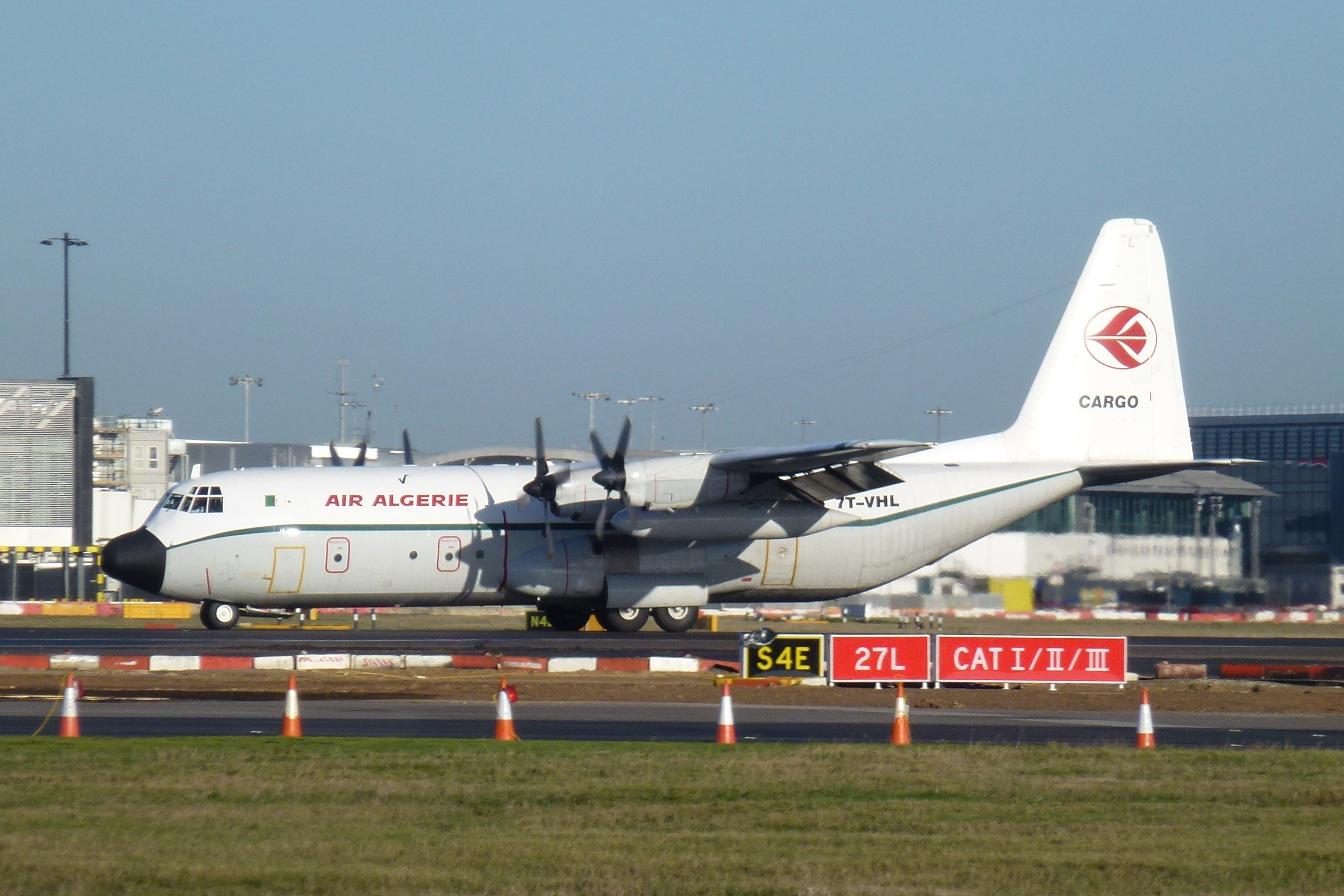 7T-VHL Lockheed L-100-30T Hercules Air Algerie on rwy 027L in to pick up more excess baggage from their scheduled flights.